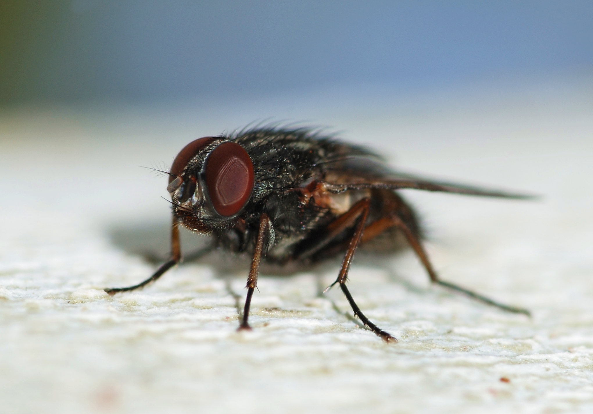 A male False stable fly (Muscina stabulans)